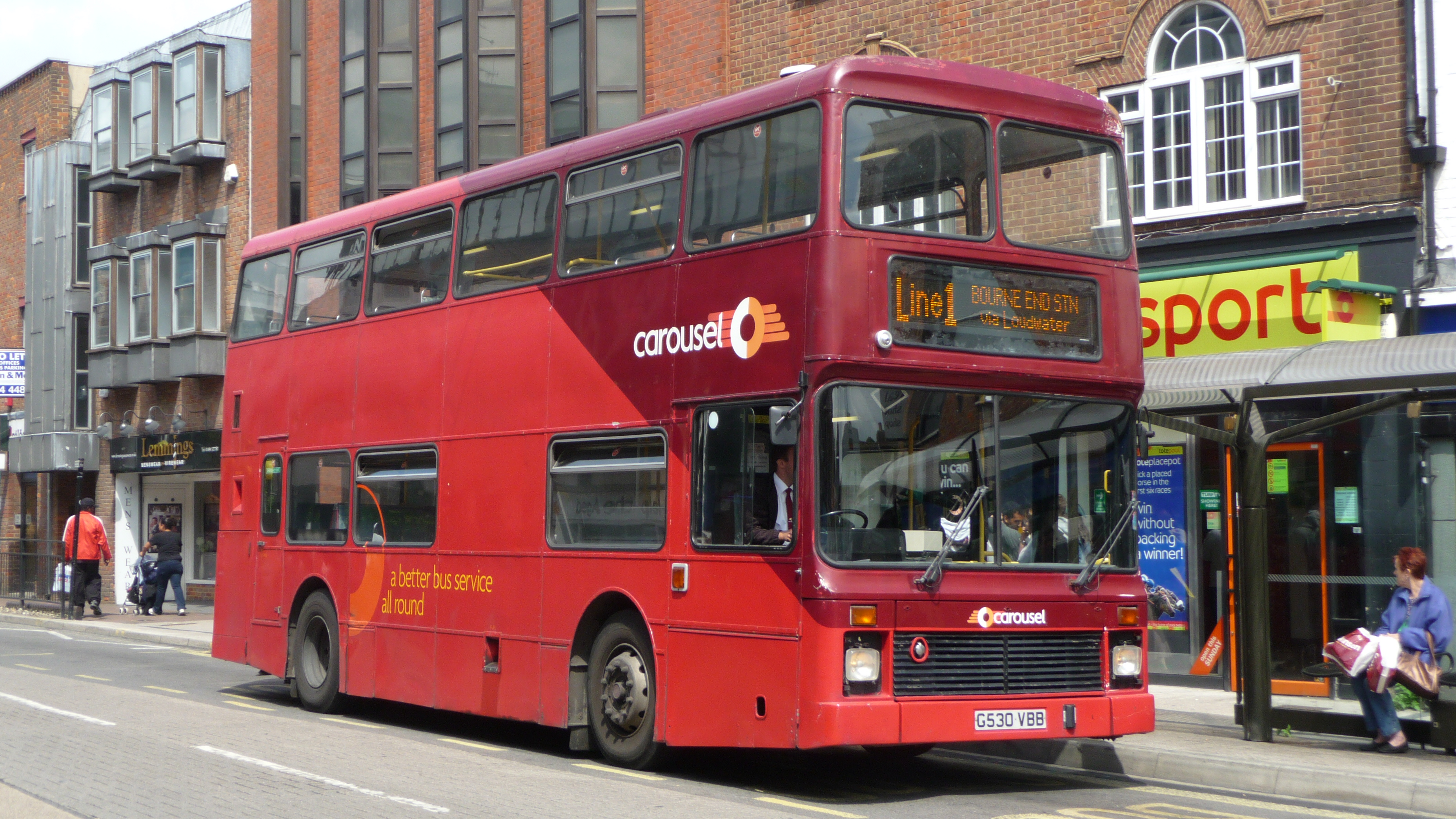 Carousel Buses L530 (G530 VBB), a Leyland Olympian/Northern Counties Palatine, in Oxford Street, High Wycombe, Buckinghamshire, on route 1.